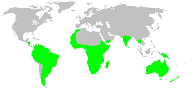 Idiopidae habitat distribution, drawn after Platnick: World Spider Catalog 7.0. This is not a precise rendering of the distribution! If you have better information, please replace this map, or send me the info, so i will redraw it.